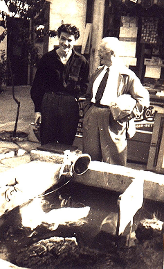 Rob Wagner with artist Leo Politi on Olvera Street, Los Angeles, California, in 1938.